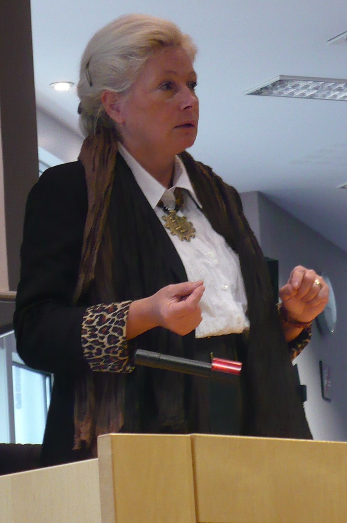 Zuzana Roithová, Czech politician. Taken in European Parliament in Brussels.